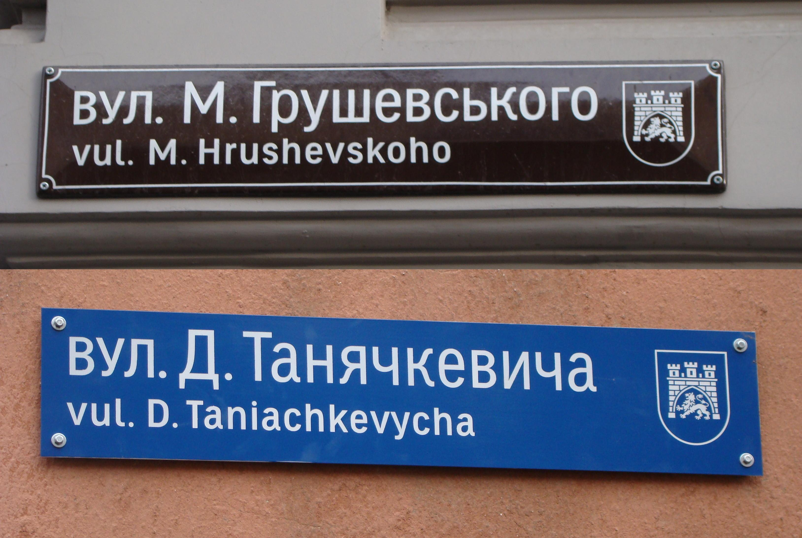 Examples of Lviv street plates written in Cyrillic and governmental standard of romanization. The plate-type above is used for city centre and the plate-type below is used for other places of the city.